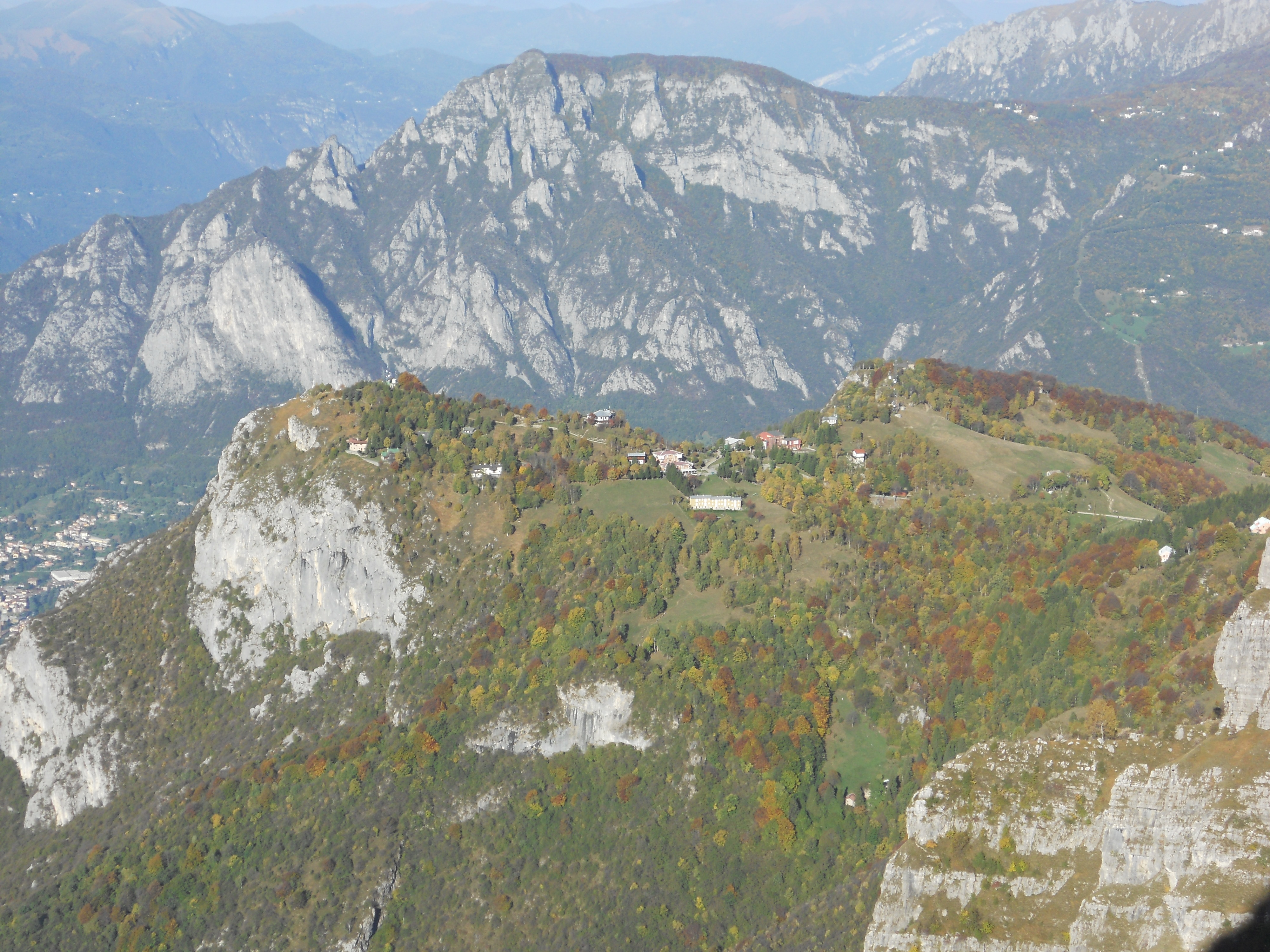 The Piani d'Erna seen from mount Resegone